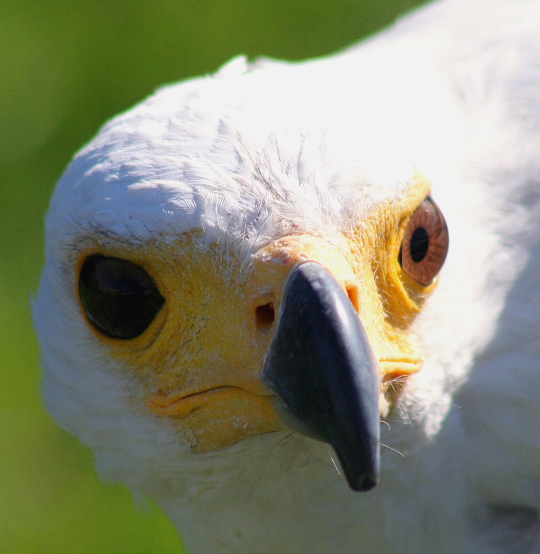 The African Fish Eagle (Haliaeetus vocifer or – to distinguish it from the true fish eagles (Ichthyophaga), the African Sea Eagle – is a large species of eagle. It is the national bird of Zimbabwe and Zambia.